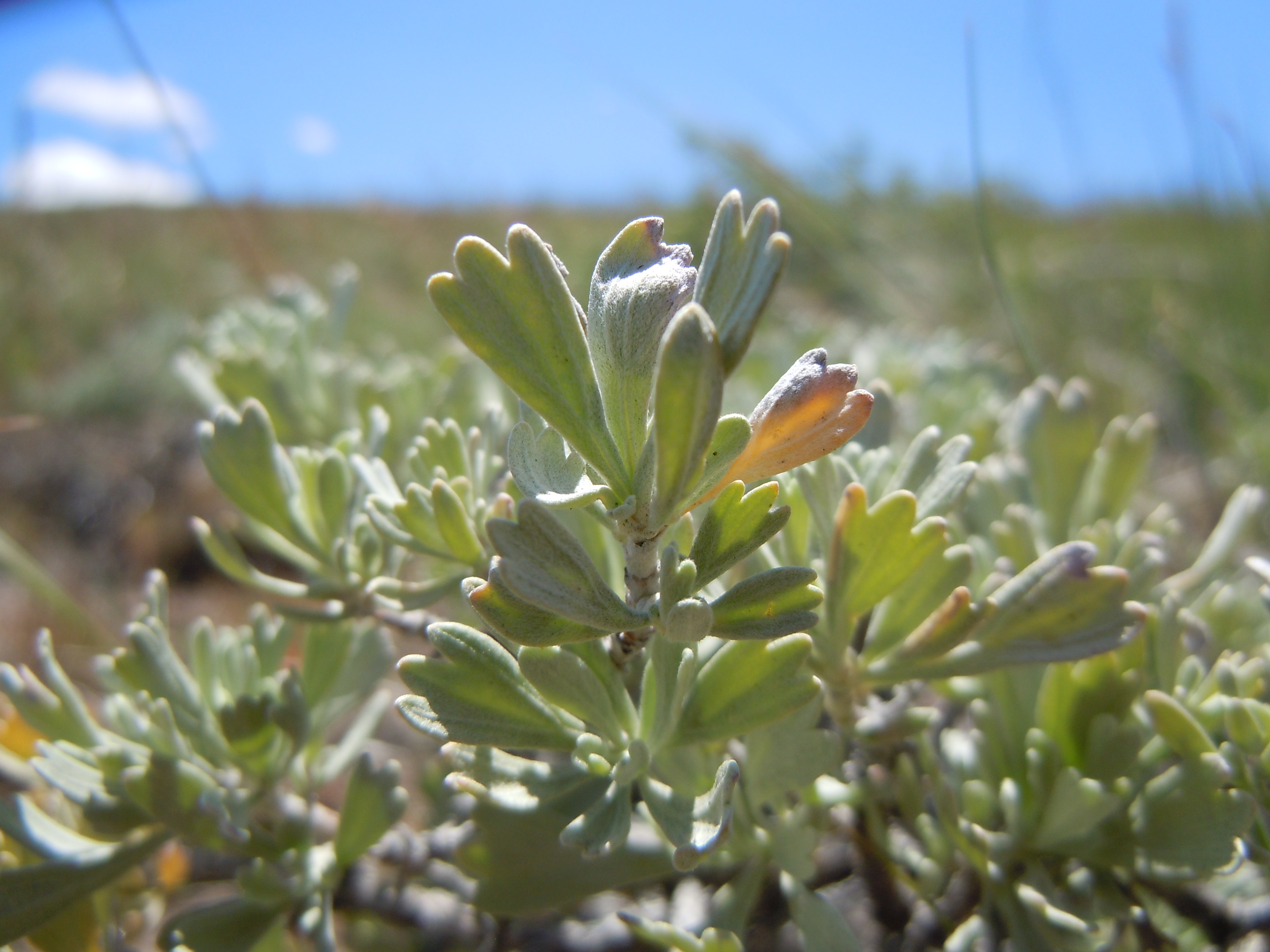 Little sagebrush is most common at upper elevations in this area of the upper Snake River plains, including Big Southern Butte on the more open and exposed sites with rocky and shallow soils.